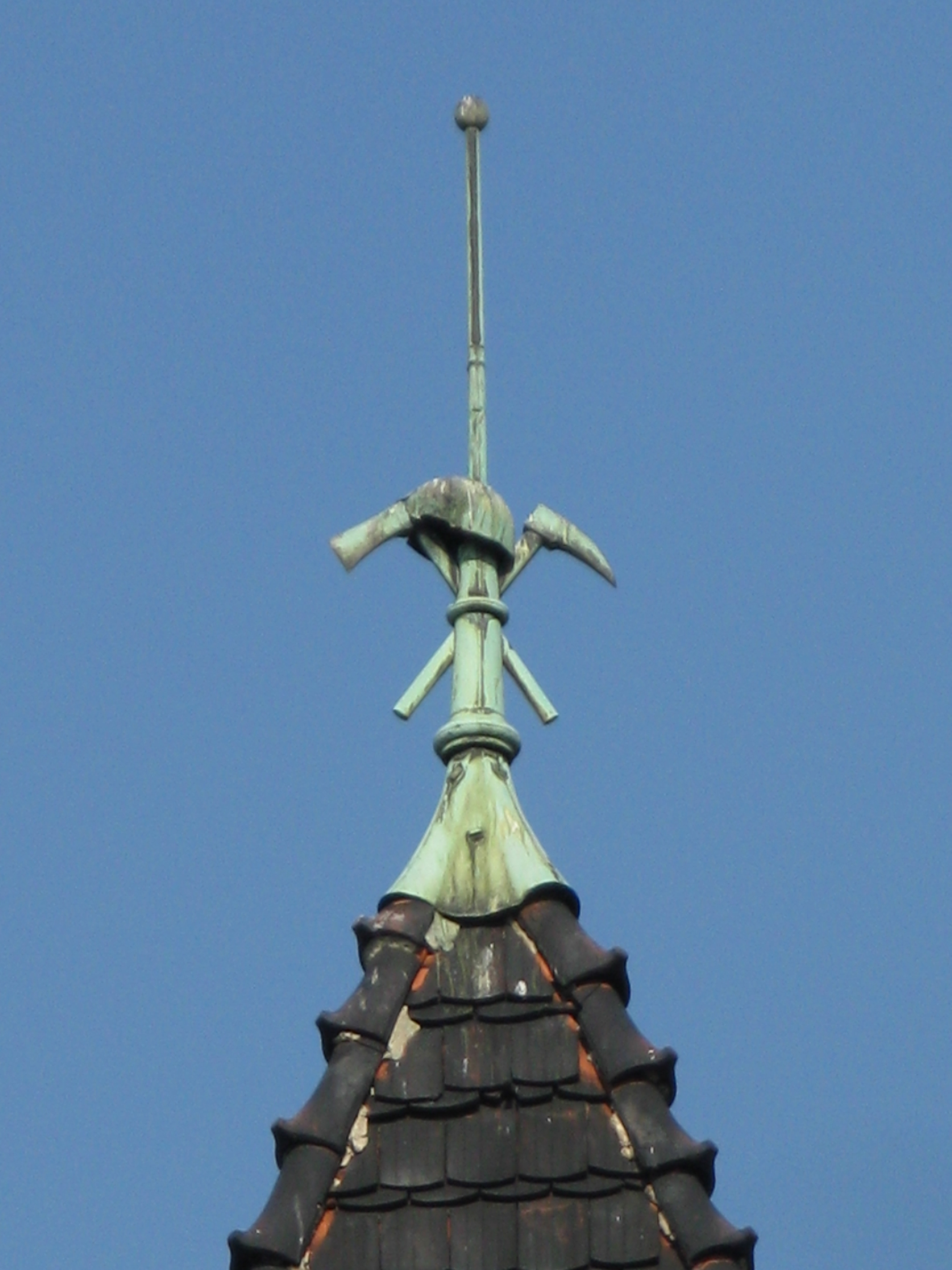 The spire on the top of the fire station tower in Bytom-Łagiewniki, Poland with firefighters insignia: dwo crossed axes and helmet.